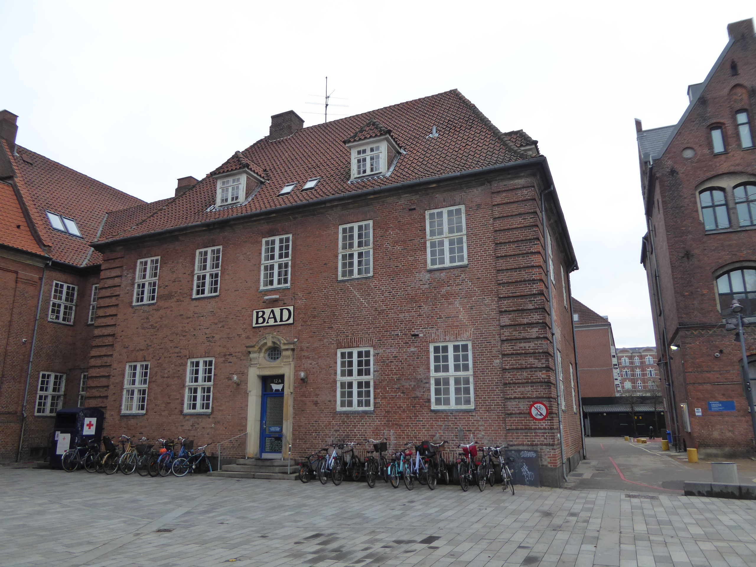 The public bathroom Sjællandsgade Bad at Sjællandsgade in Nørrebro in Copenhagen.